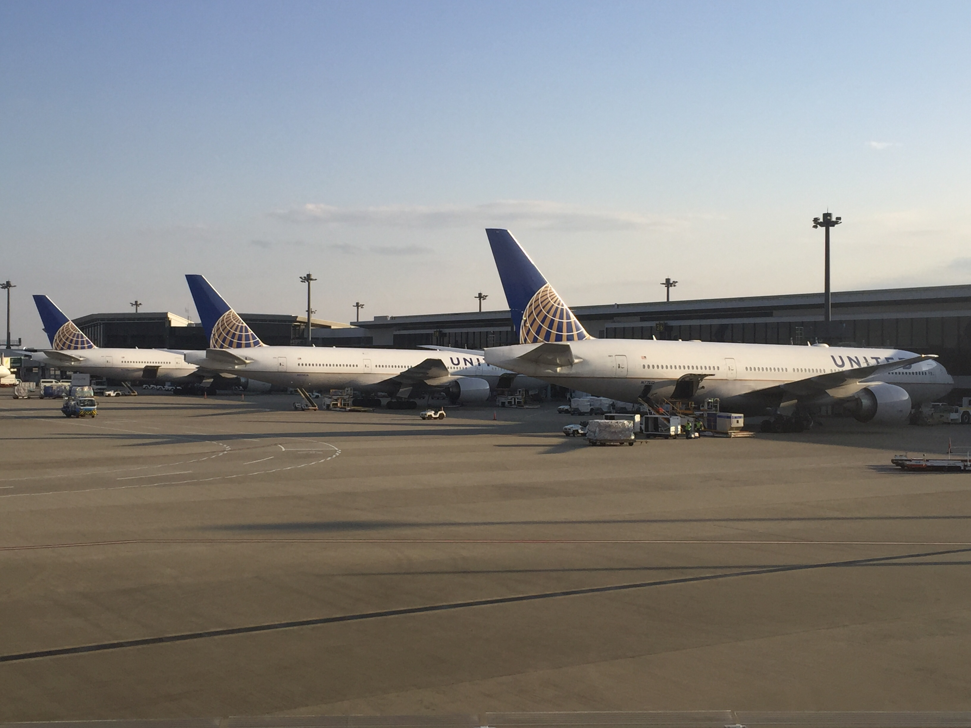 About 10 United aircraft at NRT ranging from the 737 to the 747 and 787. These three 772s are off to EWR, ORD and LAX